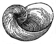 1863 engraving of basal view of the shell of Vitrina pellucida by Orlando Jewitt